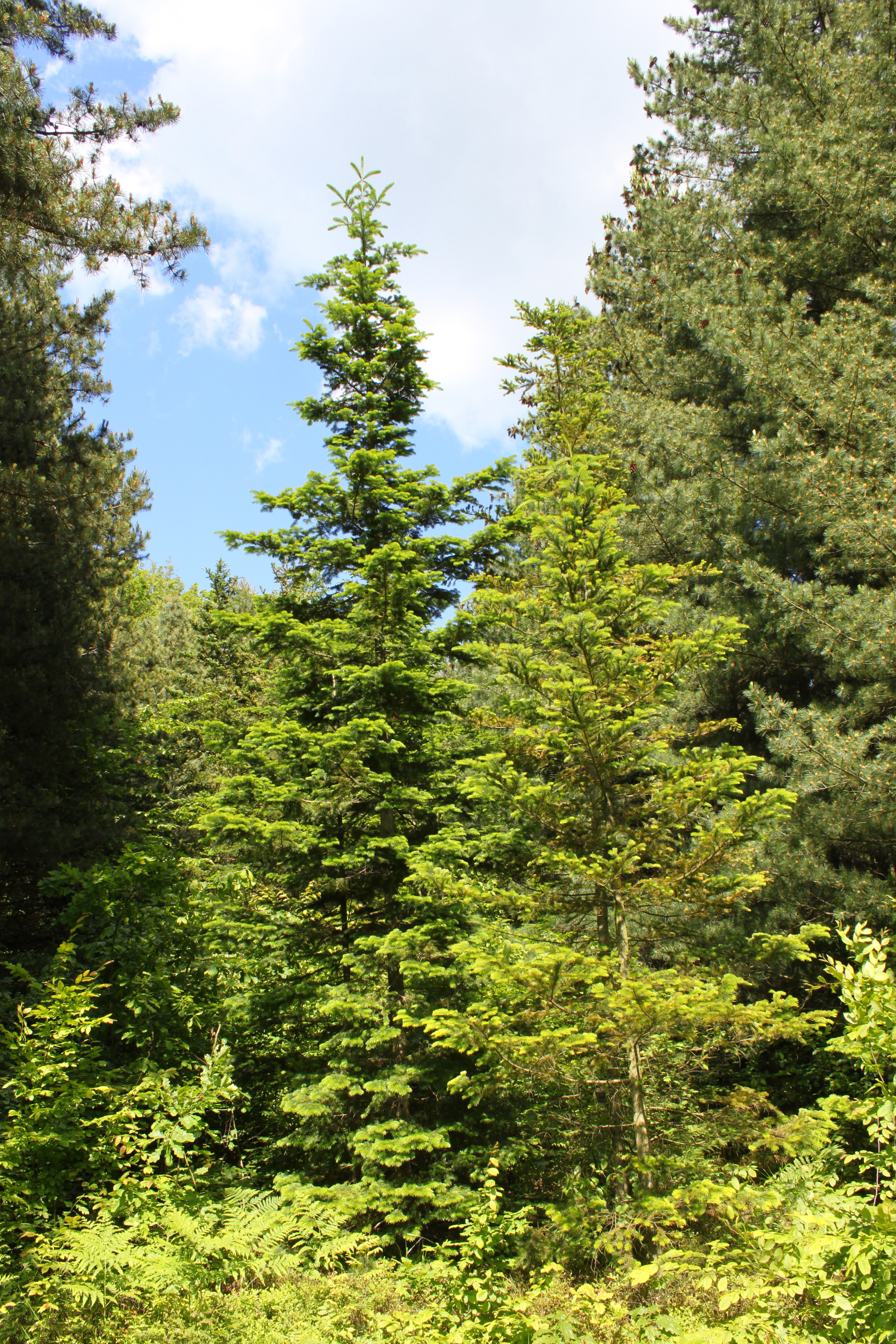 Sakhalin Fir (Abies sachalinensis) in Rogów Arboretum, Poland